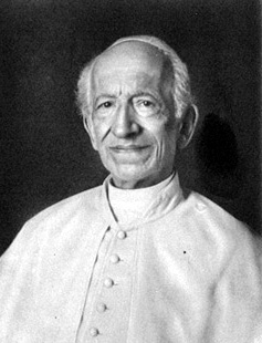 Portrait of Pope Leo XIII